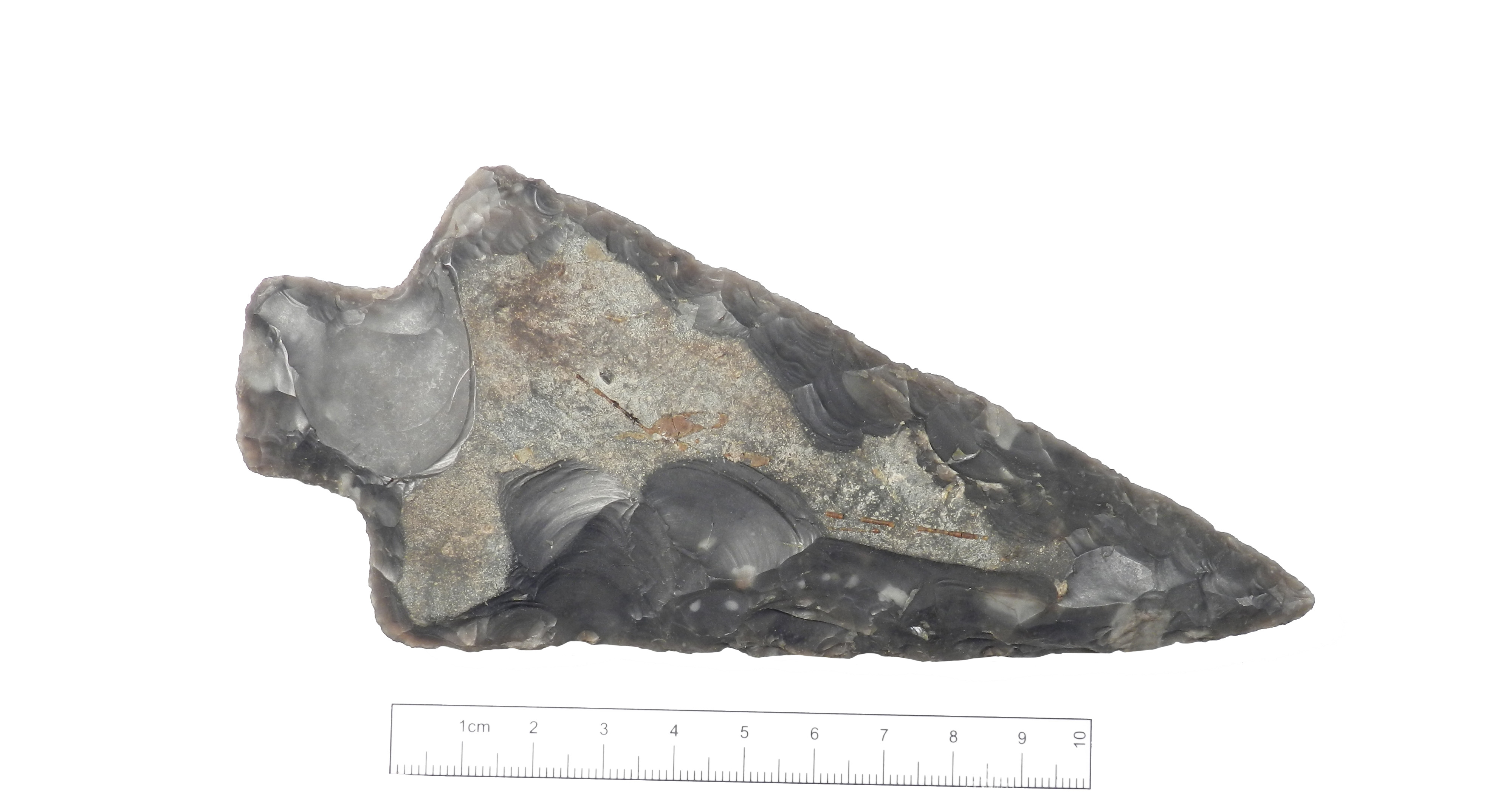 Edward Simpson (Flint Jack) replica; broad, triangular spearhead with obliquely angled shoulders and a square tang. c.30% cortex on ventral surface. Opaque, dark grey flint, flecked with light grey inclusions.